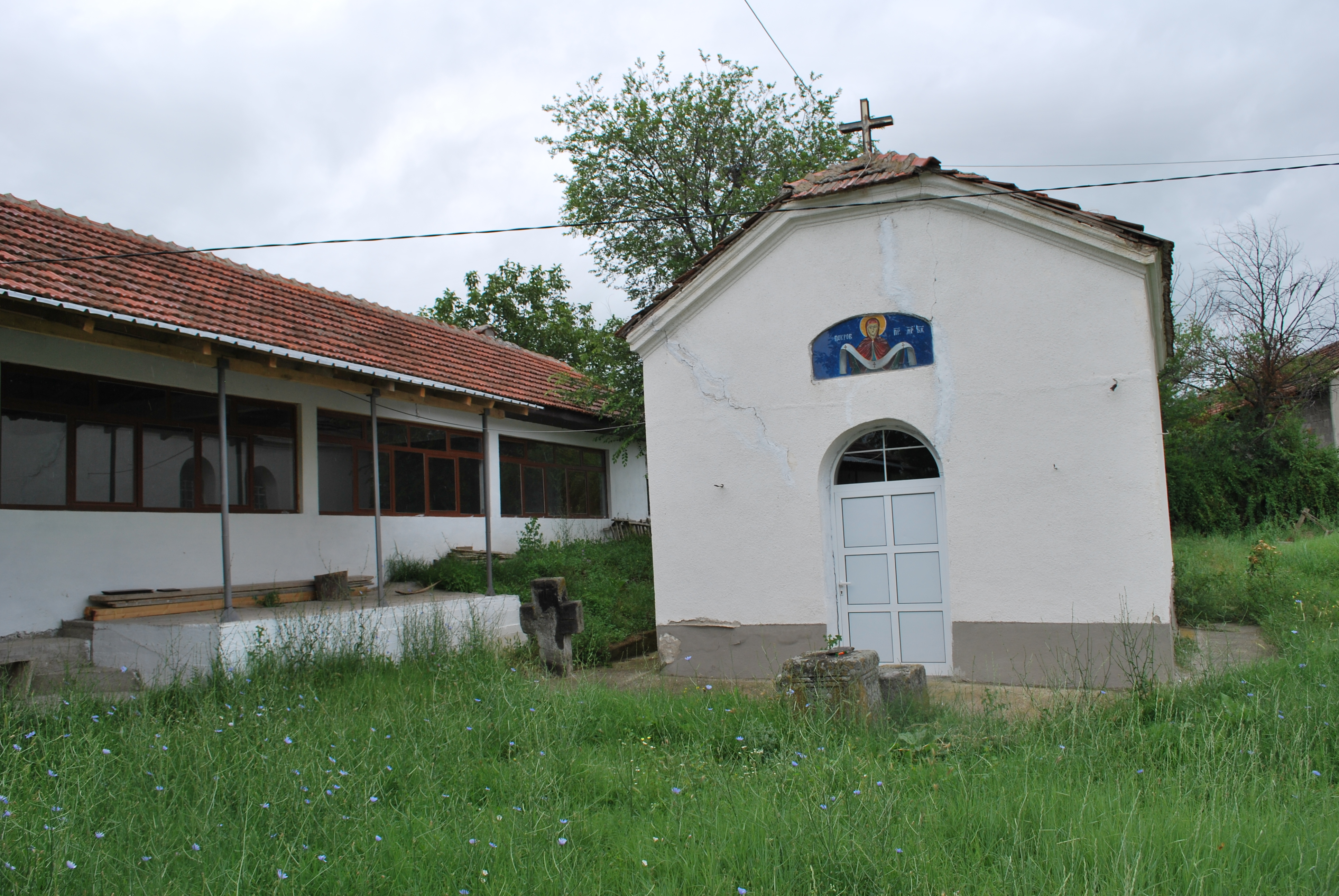 Church of the Protection of the Theotokos in Sušica, a village near Skopje, Macedonia